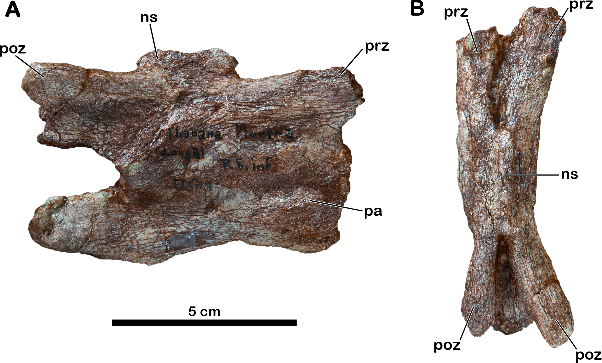 Anterior cervical vertebra of Meroktenos, MNHN.F.LES351a. (A) Right lateral and (B) dorsal views. ns, neural spine; pa, parapophysis; poz, postzygapophyses; prz, prezygapophyses. (Photo credit: L Cazes.)